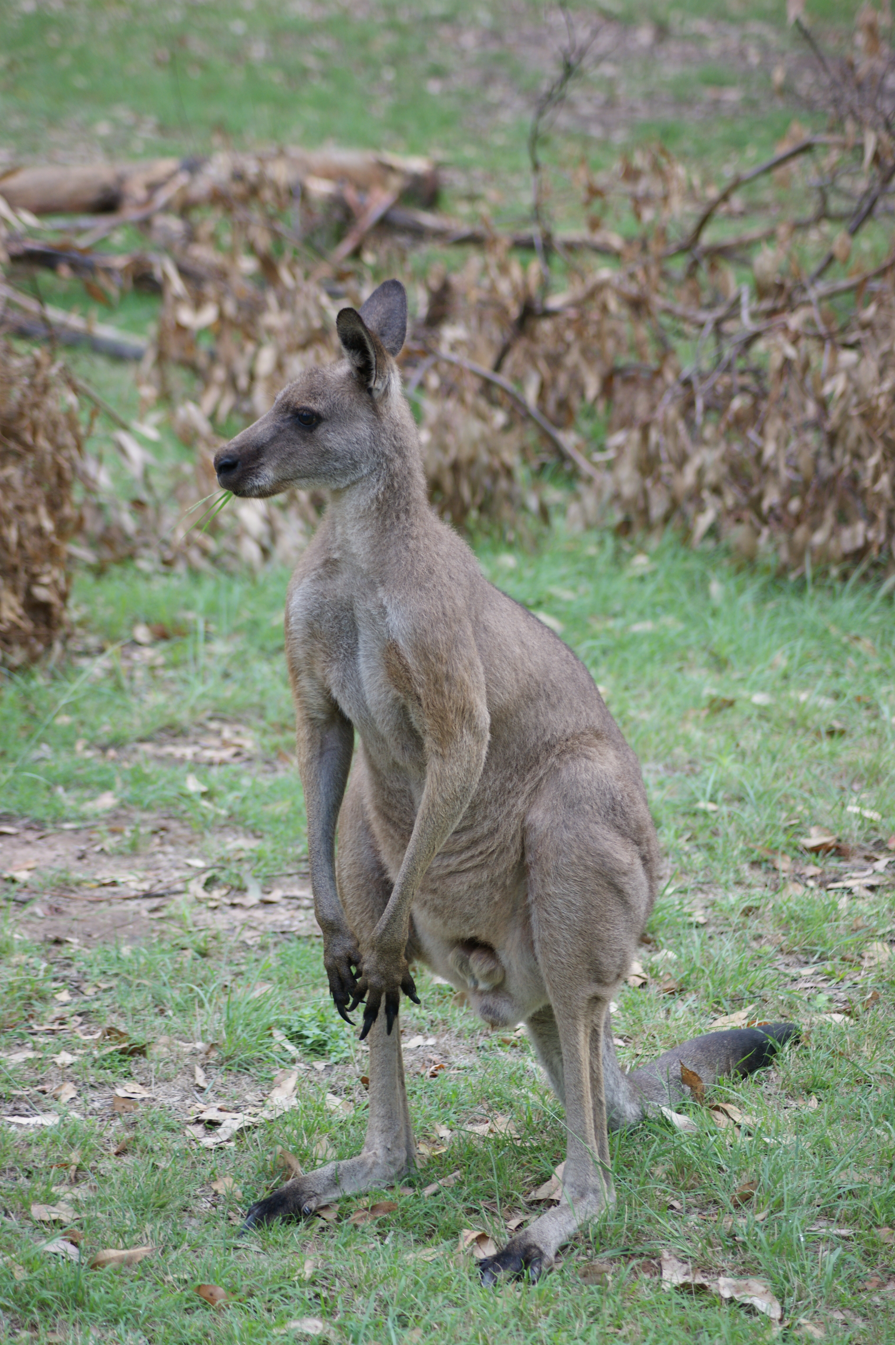 Wild Kangaroo Blue Mountains, Australia